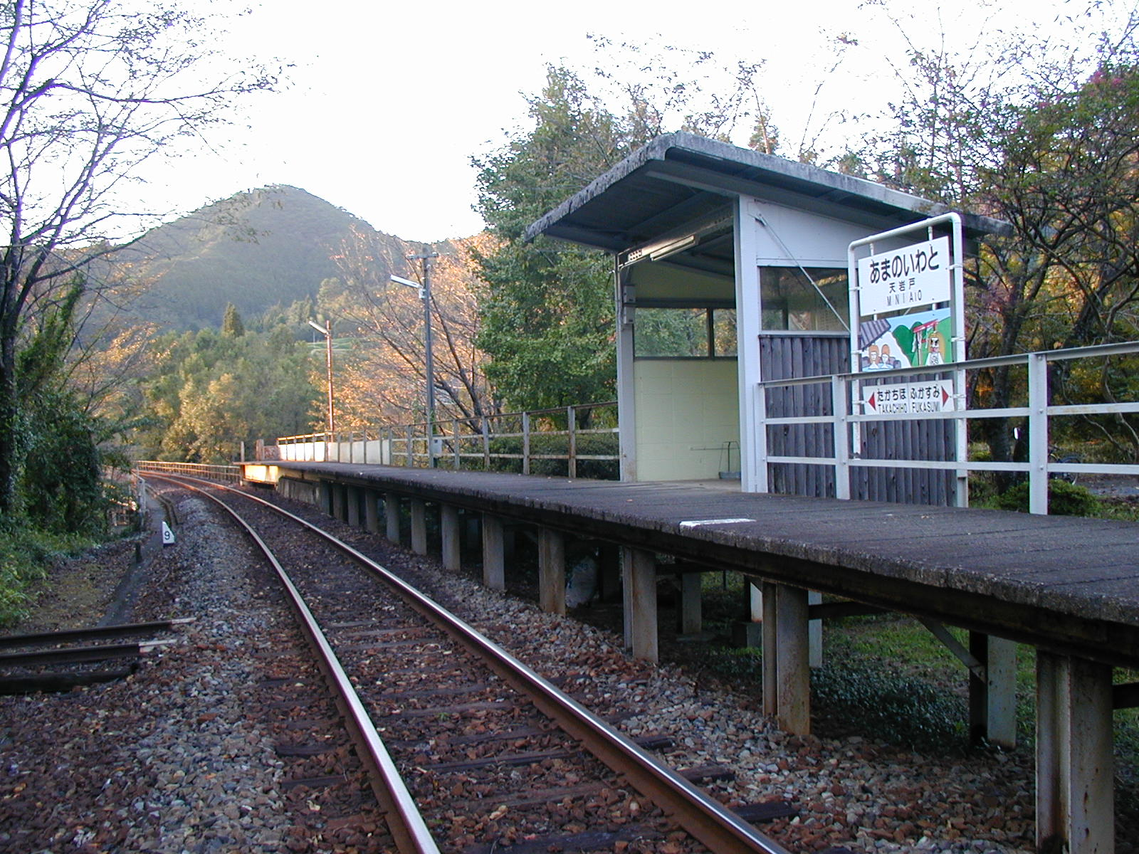 Amanoiwato Station (now defunct) in Takachiho, Miyazaki pref., Japan.